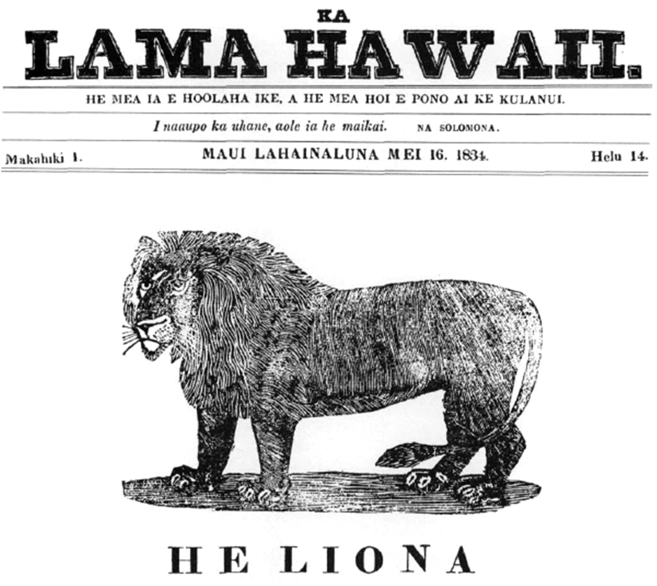 Headline and illustration of the May 16, 1834 issue of Hawaii's first newspaper, Ka Lama Hawaii. Printed by a team of students at Lahainaluna Seminary on Maui, under the direction of Rev. Lorrin Andrews.